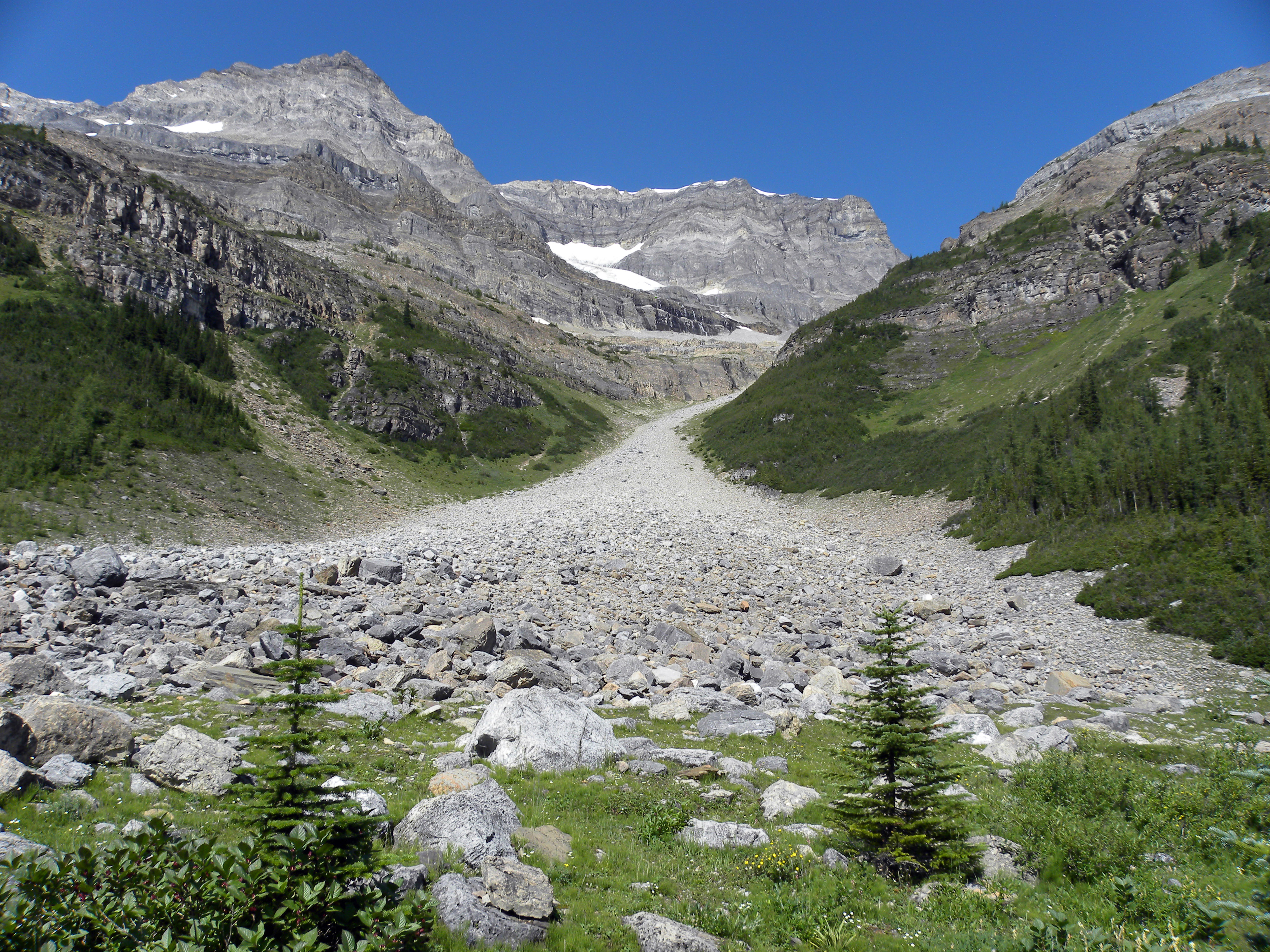 Alluvial fan above Lake Louise, British Columbia, Canada.